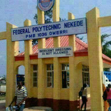 This is the main gate to the FEDERAL POLYTECHNIC NEKEDE OWERRI(FPNO). This prestigious school can be found in Owerri, Imo state,South East of Nigeria.